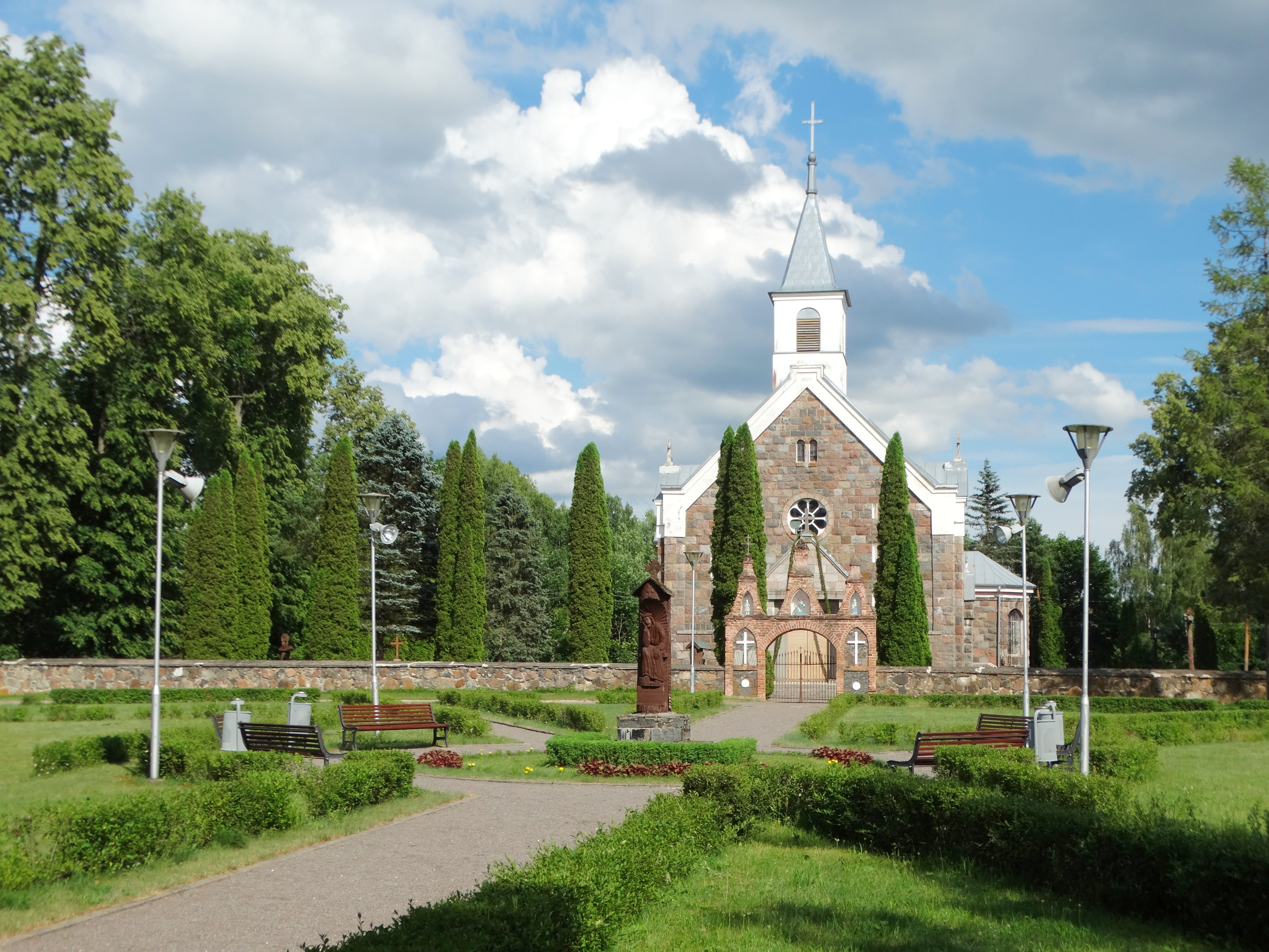 Andrioniškis, Anykščiai district, Lithuania